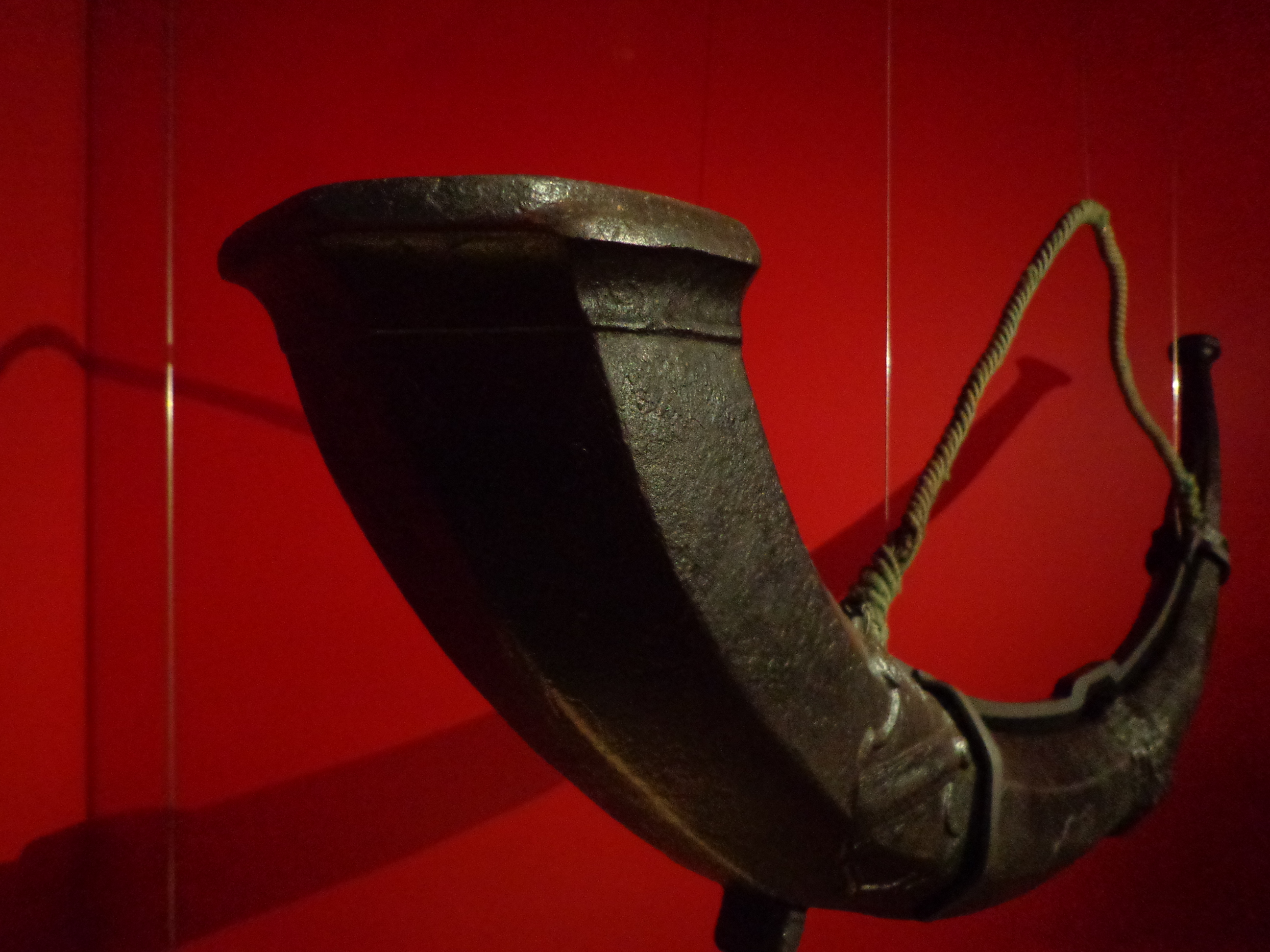 The Grüselhorn, the bronze horn that was blown every evening at 10 o'clock by the city's herald to order the Jews out of the city